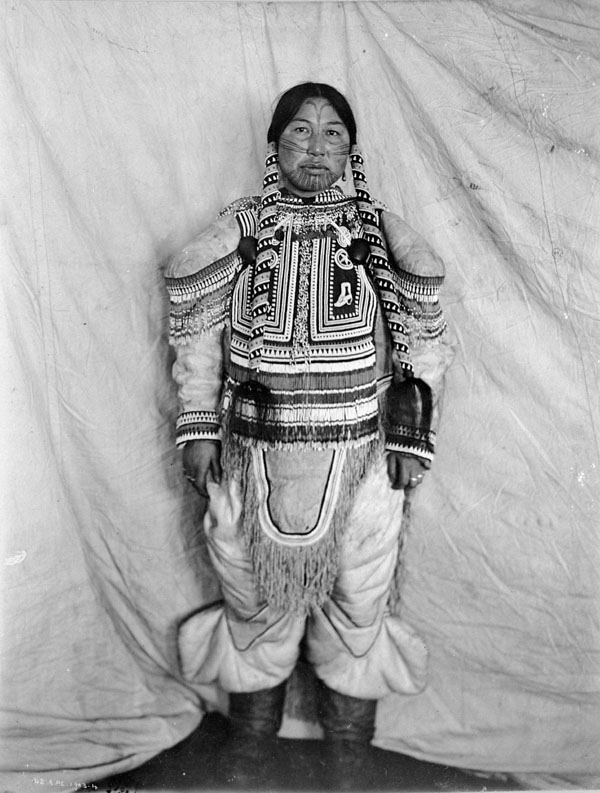 Aivillik woman Niviatsinaq ("Shoofly Comer") in gala dress (Cape Fullerton, Nunavut, Canada)